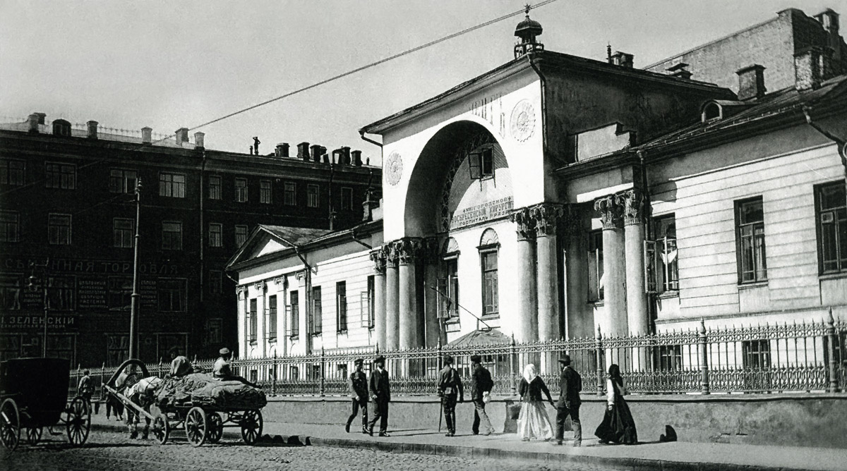 Voskresensky Hospital in Moscow, 1917.